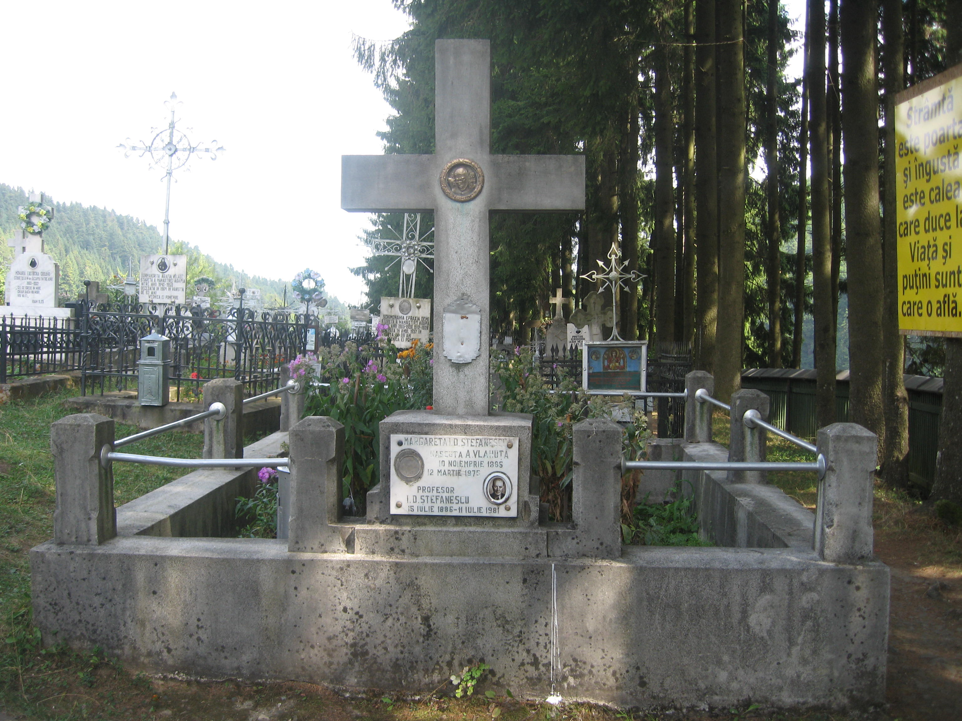 I.D. Ştefănescu